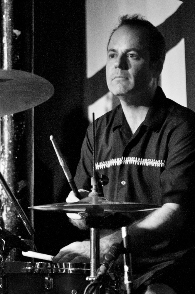 Ara Babajian of The Slackers performing in Bristol on 11July 2014.